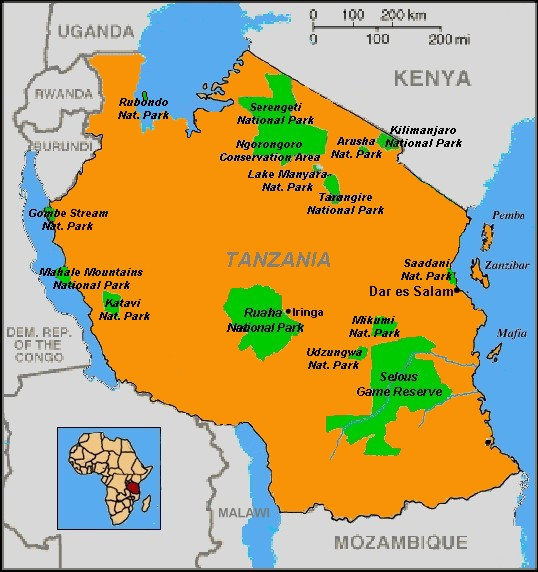 Map of National Parks in Tanzania